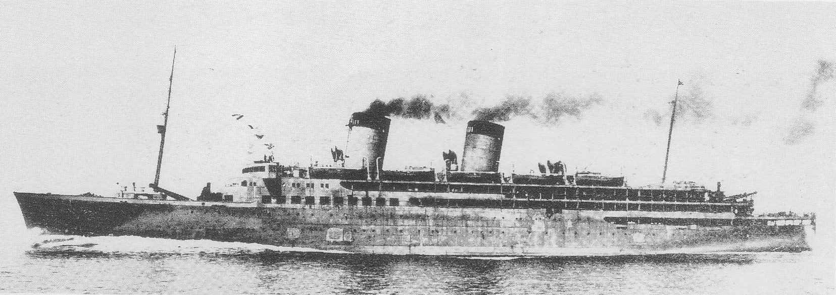 Busan-Shimonoseki Train ferry. "Tenzan Maru". Completed in 1942, sink in 1945.